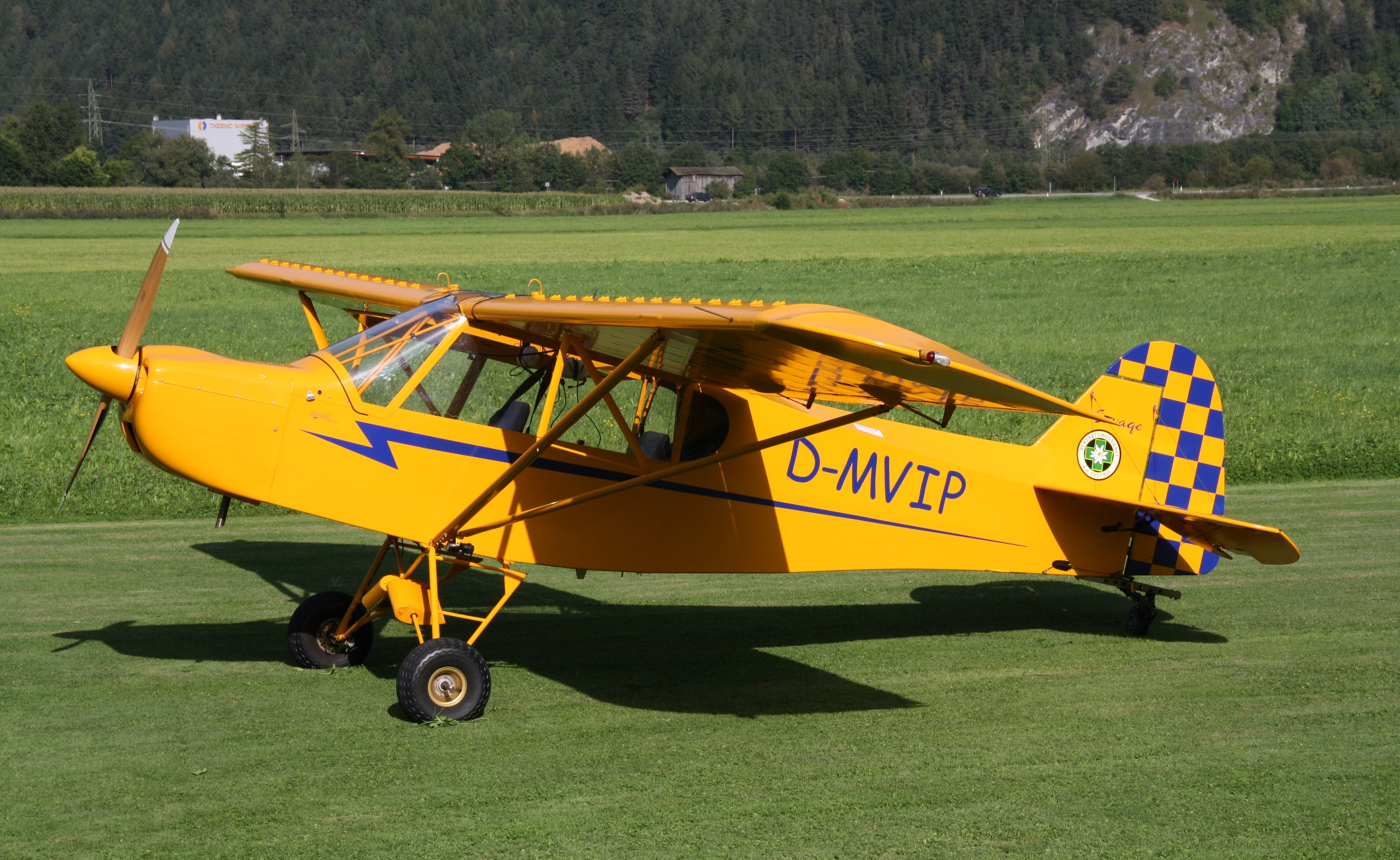 Italy, South Tirol, Sterzing. Zlin Savage Cub D-MVIP taken at Sterzing airfield.